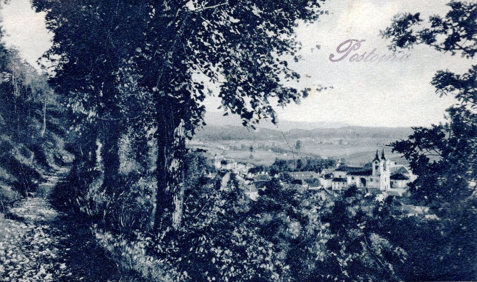 Old postcard of Postojna, Slovenia This media file is produced by Wikipedian in Residence in Category:Wikipedian in Residence at DARM in 2016.